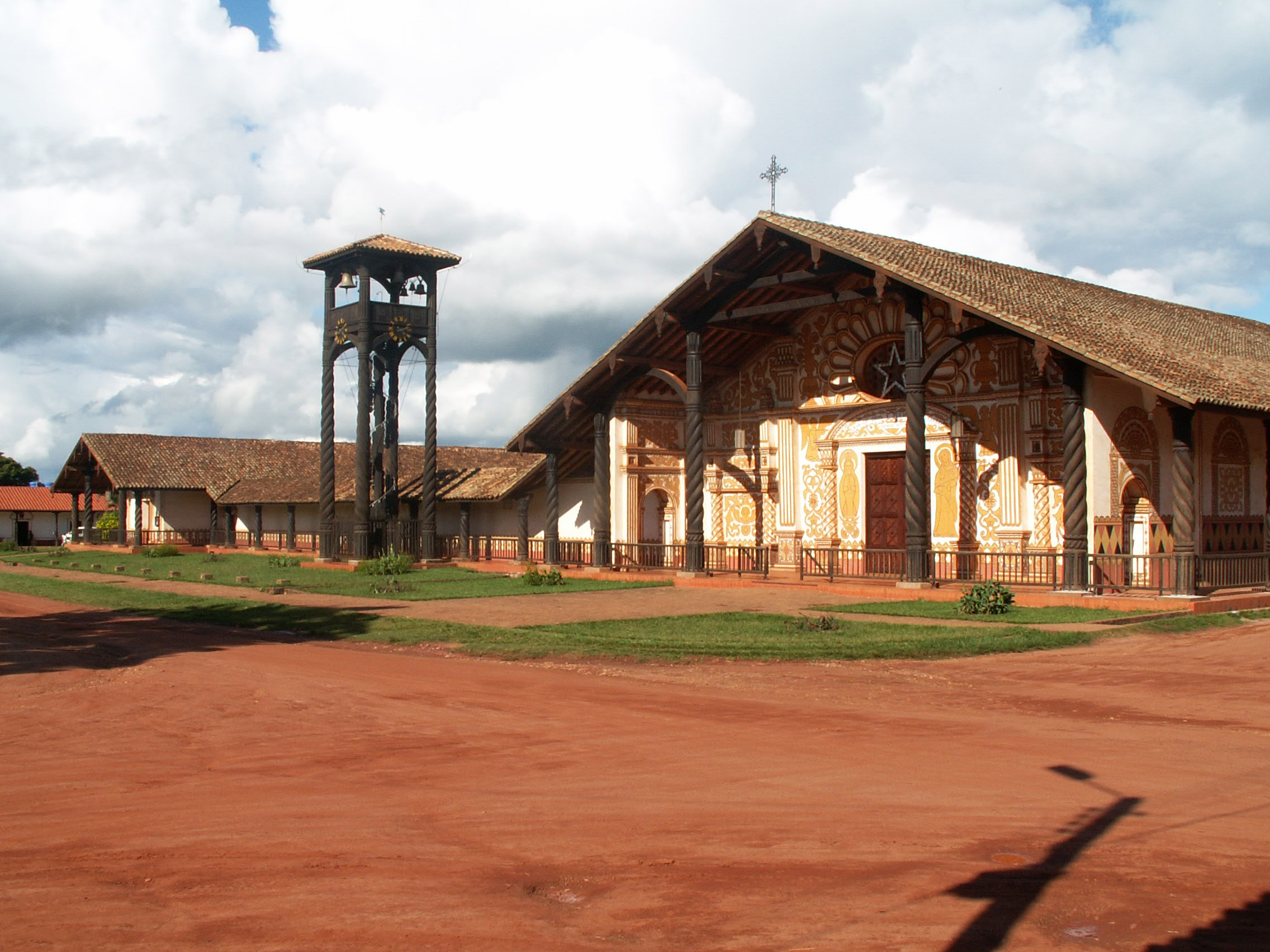 Image by Daan. Church in Concepción, Santa Cruz, Bolivia. Part of the Jesuit Missions of the Chiquitos World Heritage Site.